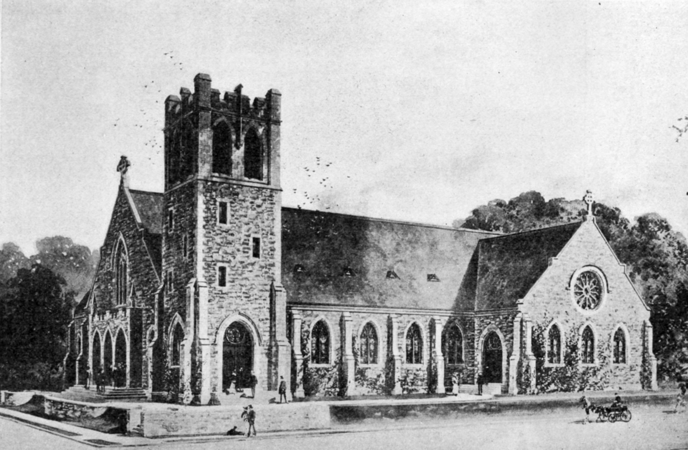 Image from The Souvenir of Western Women